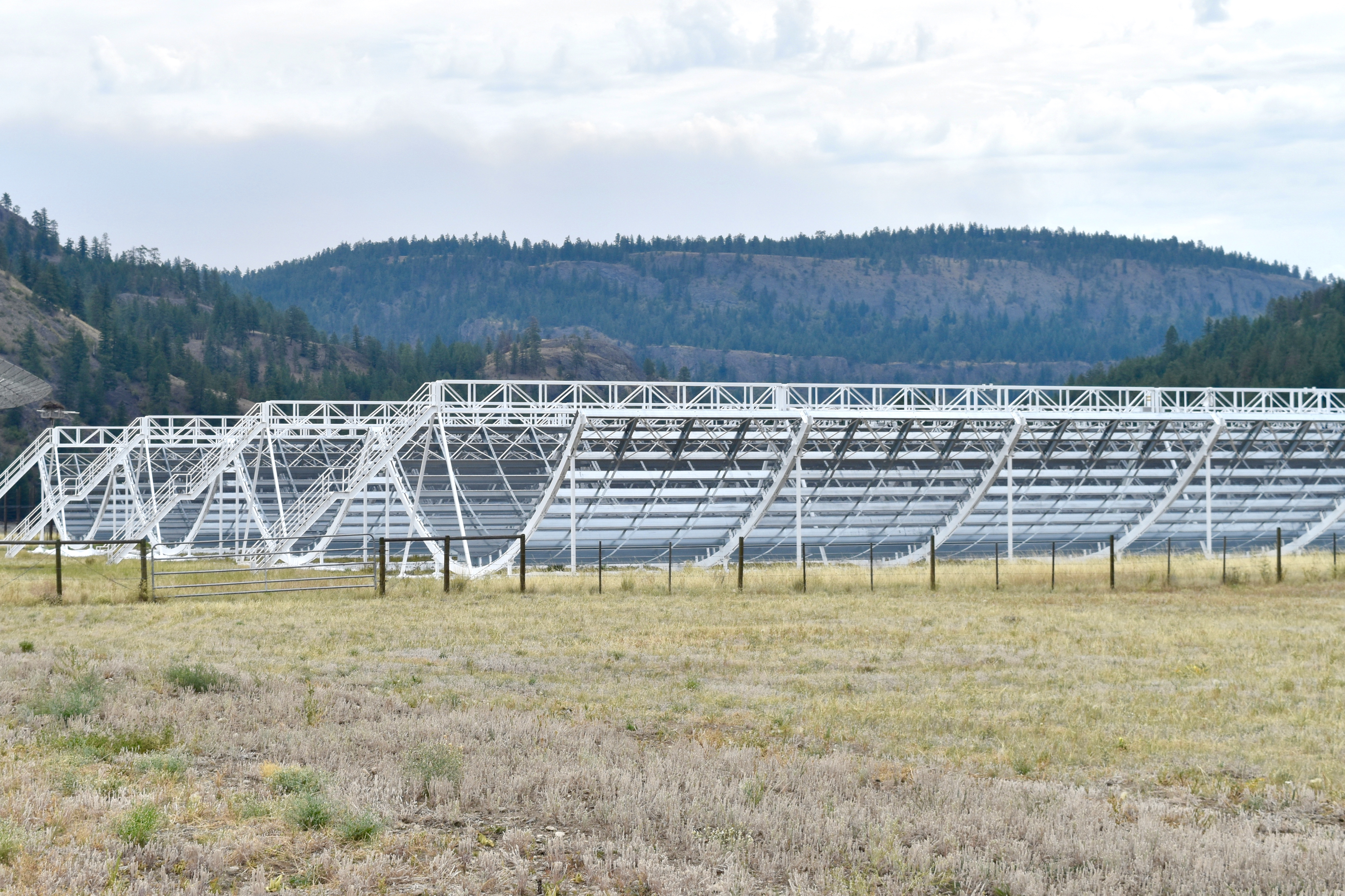 Overall view of the Canadian Hydrogen Intensity Mapping Experiment (CHIME) telescope